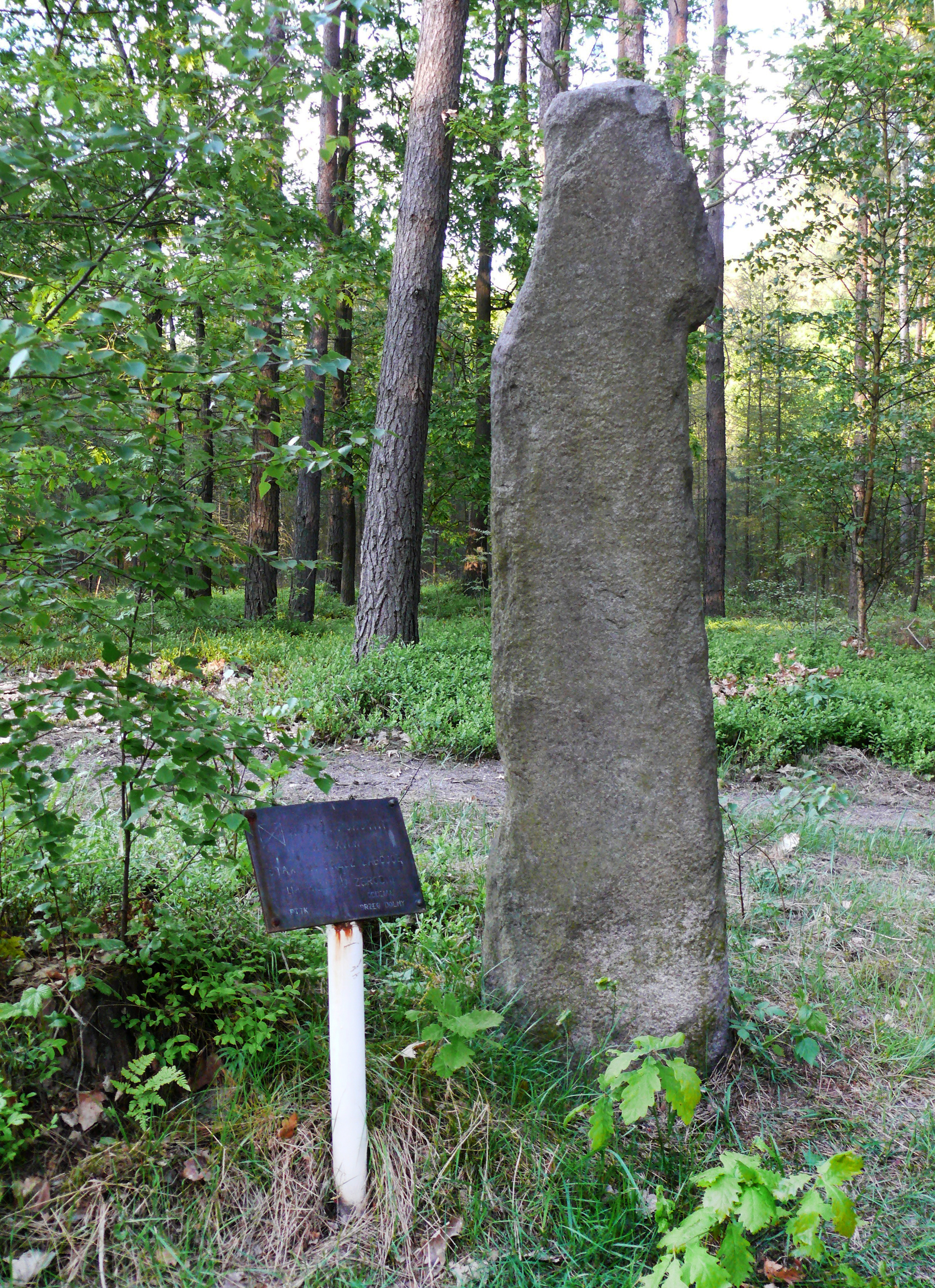 Stone cross near Nature Reserve Jodłowice.